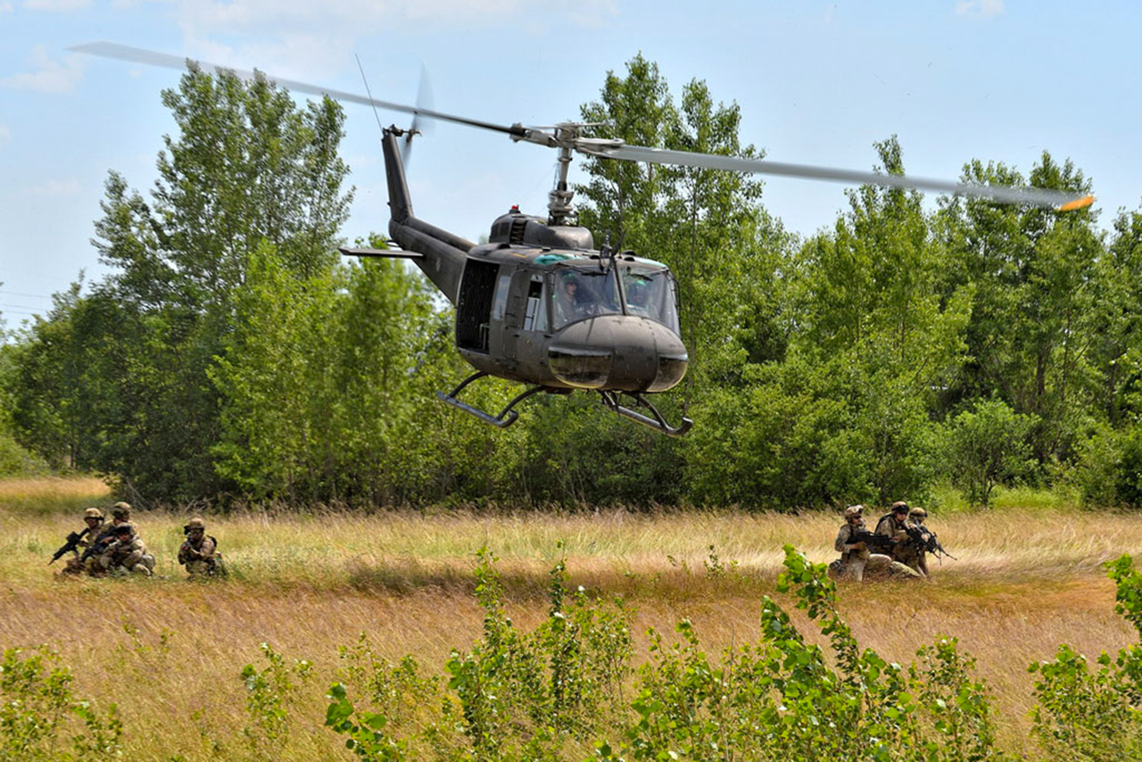 Italian Army Aviation AB 205 helicopter during an exercise